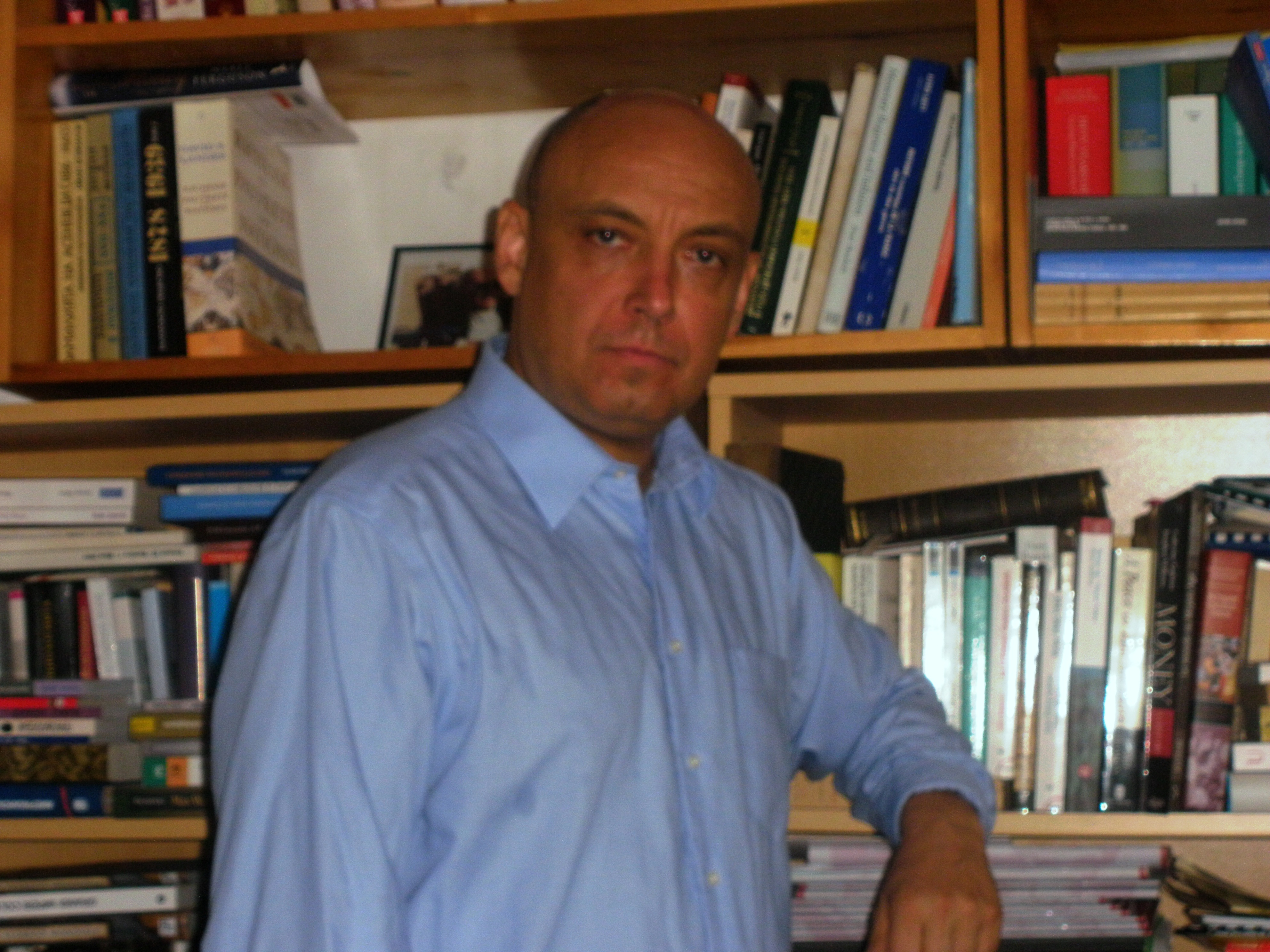 Prof. Nikolay Nenovsky/ August 2012